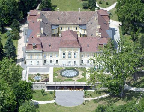 Hőgyész, Tolna county, palace, aerial photography This is a photo of a monument in Hungary. Identifier: 8631